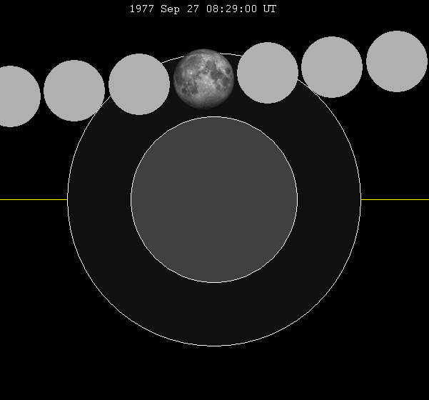 September 1977 lunar eclipse chart of moon's path through the earth's shadow. thumb